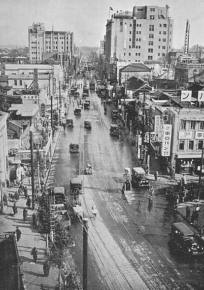 Shinjuku in 1933